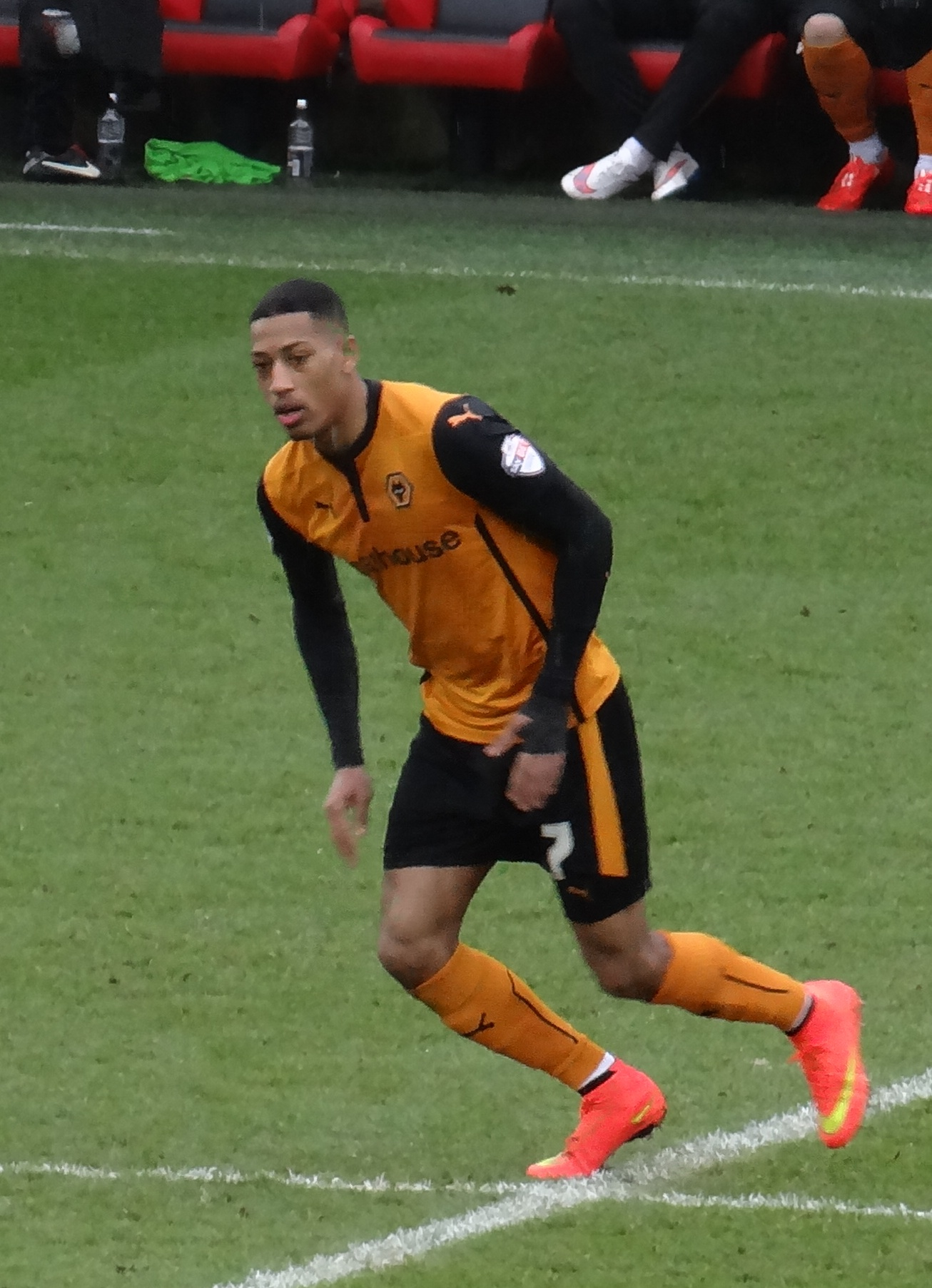 Footballer Rajiv van La Parra in 2015.